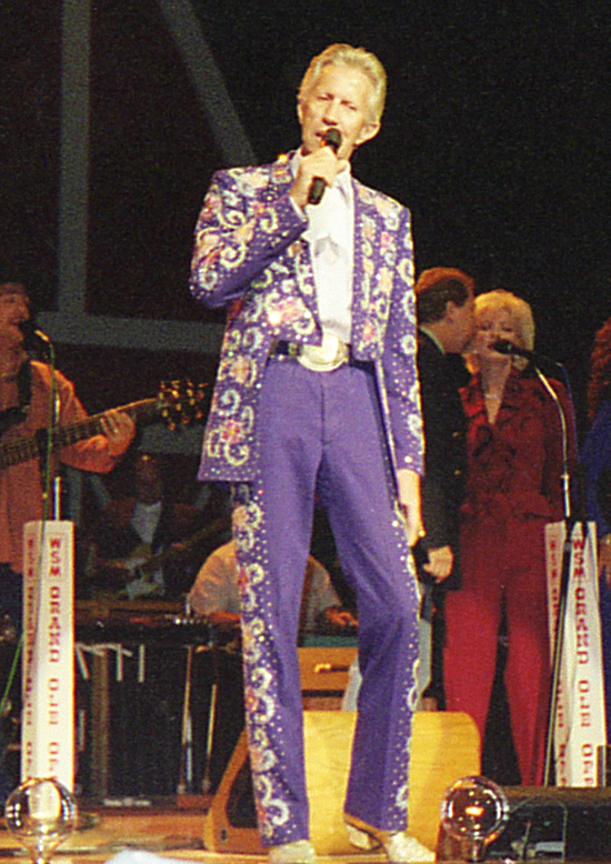 Porter Wagoner singing at the Grand Ole Opry in Nashville, Tennessee, USA.